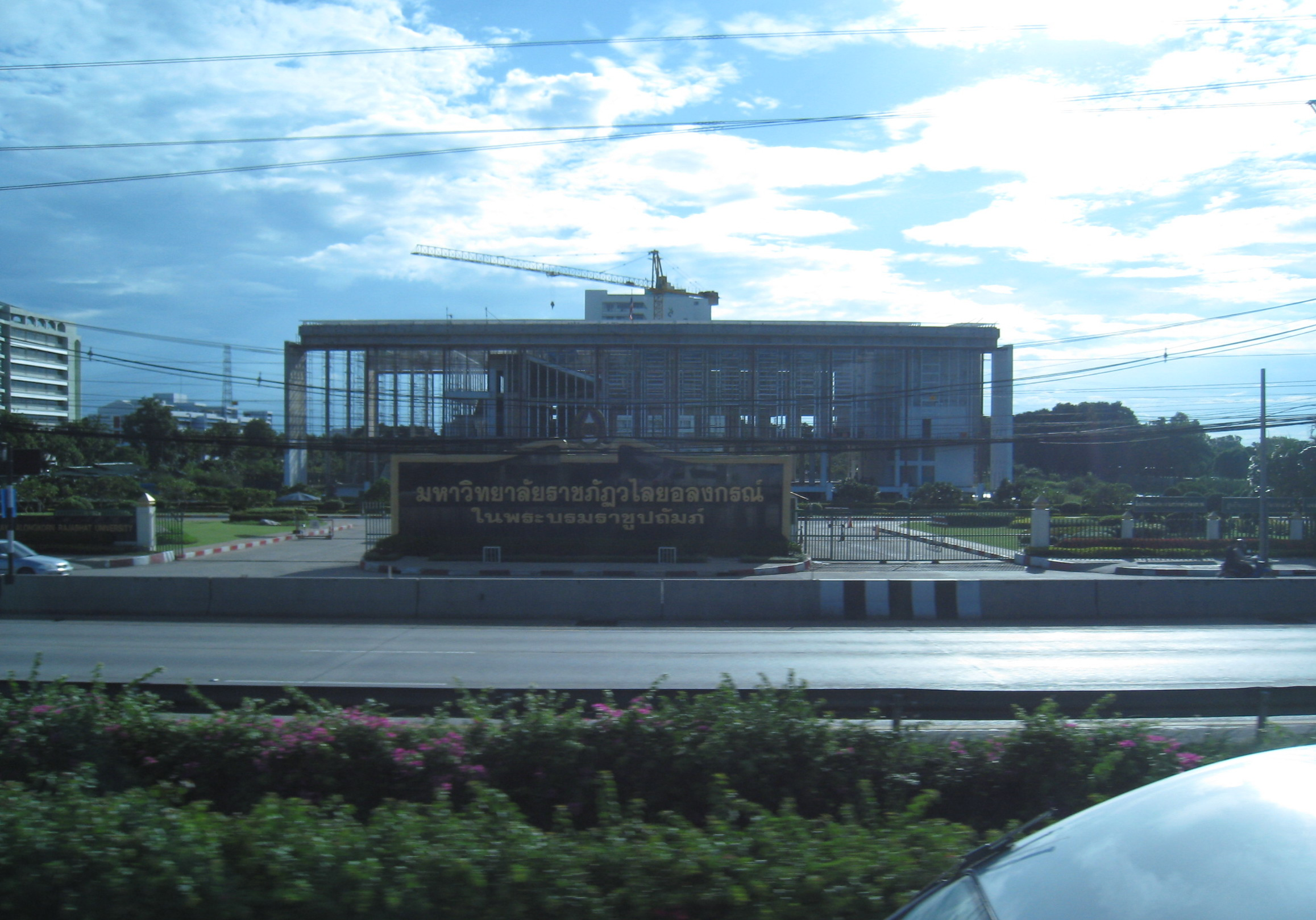 Entrance of Valaya Alongkorn Rajabhat University, Thailand